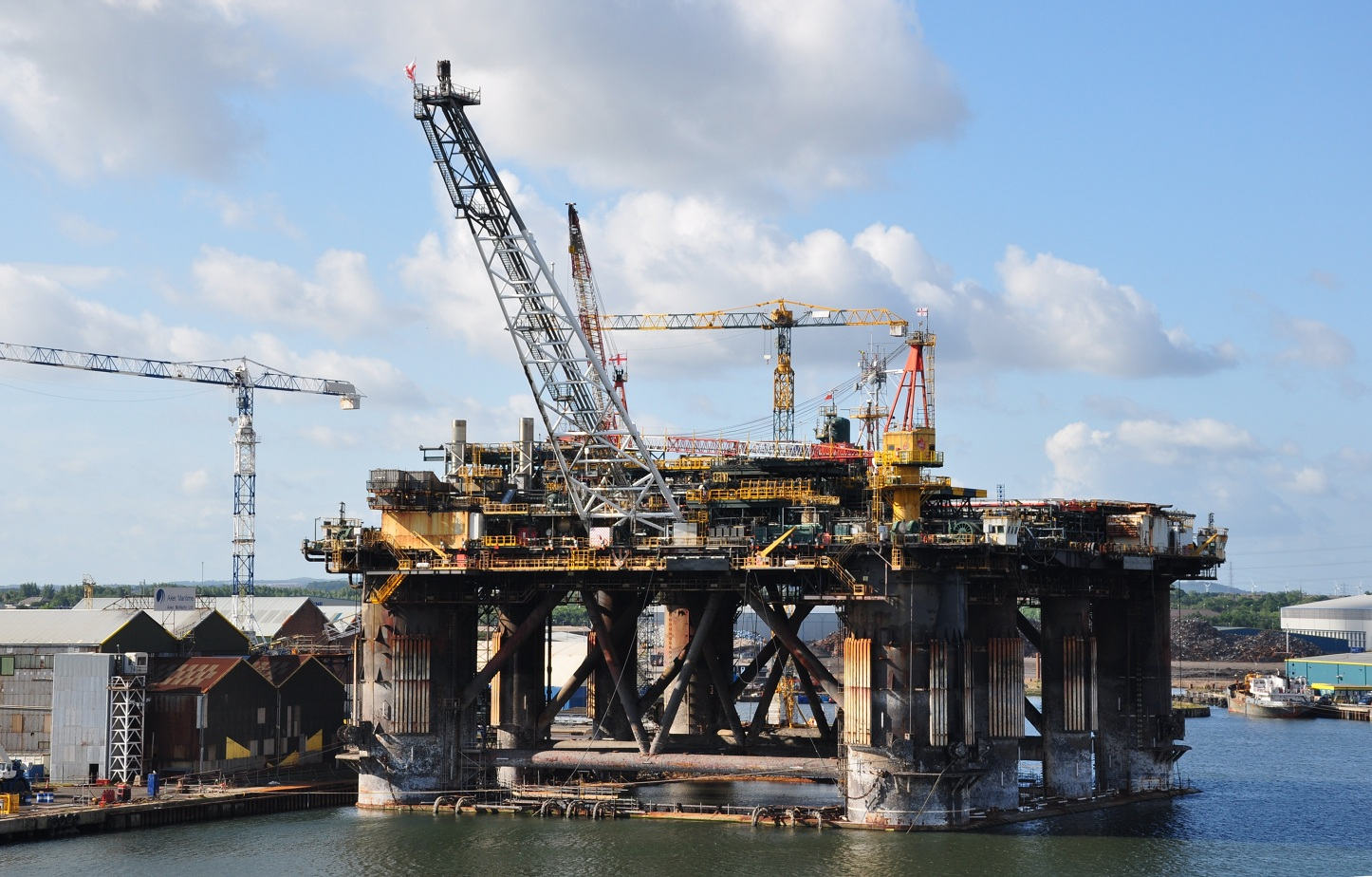 A drilling rig in the harbour of South Shields, South Tyneside, Tyne and Wear, England.